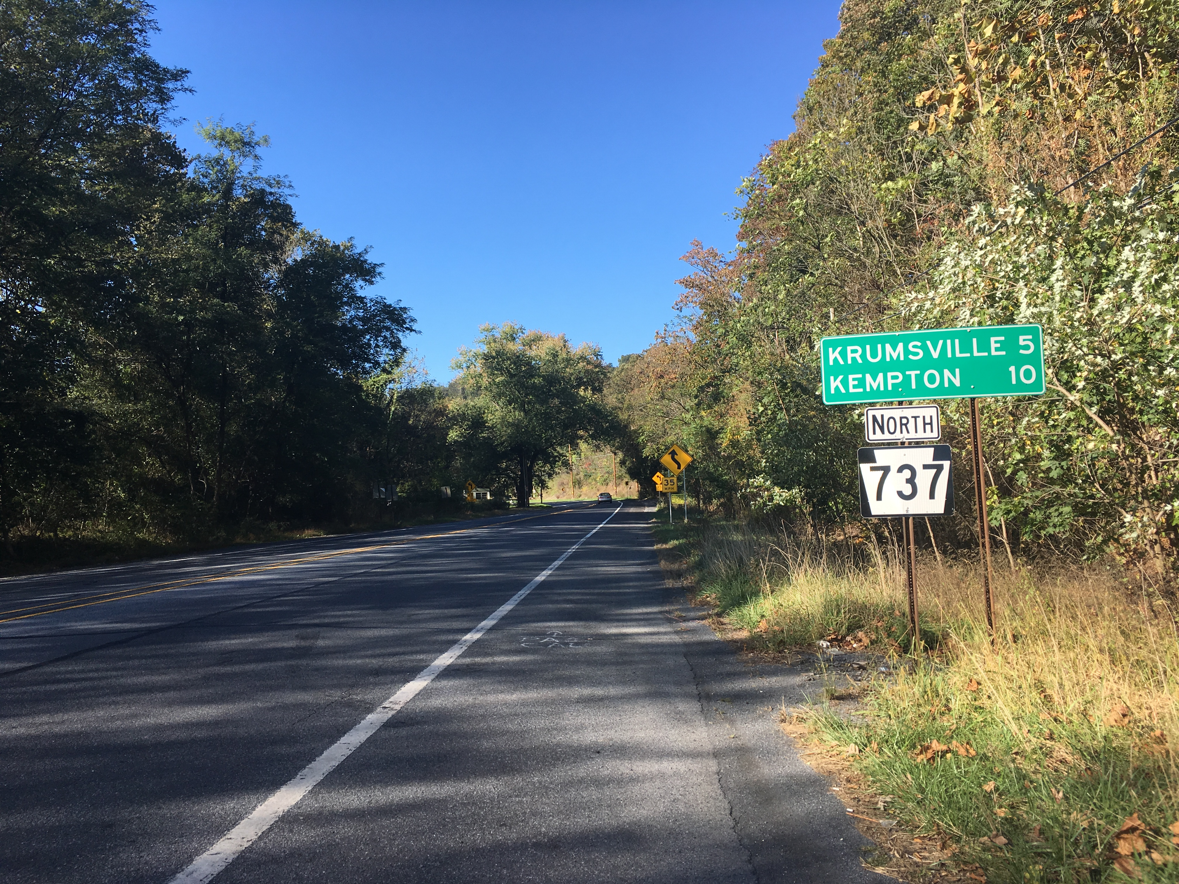 Northbound Pennsylvania Route 737 (Krumsville Road) past its southern terminus at the interchange with U.S. Route 222 (Kutztown Bypass) in Kutztown, Pennsylvania